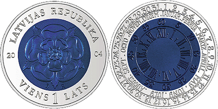 Coin of Time - 1 Lats (2004) Weight: 17.15 g (weight of the central circle - 7.15 g, weight of the outer ring - 10.00 g). Diameter: 34 mm (diameter of the central circle - 23 mm). Metal: the central circle - niobium; the outer ring - silver, fineness .900. Quality: UNC. Artists: Laimonis Senbergs (graphic design), Janis Strupulis (plaster model). Obverse: A symbol of a heraldic rose with letters H and R beneath it is placed in the central part of the coin. The inscription LATVIJAS REPUBLIKA (Republic of Latvia) is arranged in semicircle at the top of the outer ring, the inscription of the divided year 2004 is situated on the left and right from the coin's center, and beneath it there is the semicircular inscription VIENS 1 LATS (ONE 1 LATS). Reverse: The reverse of the coin features the dial of the clock with indications of hours and minutes in the central part, and the names of months and the dates in the outer ring. Edge: Plain